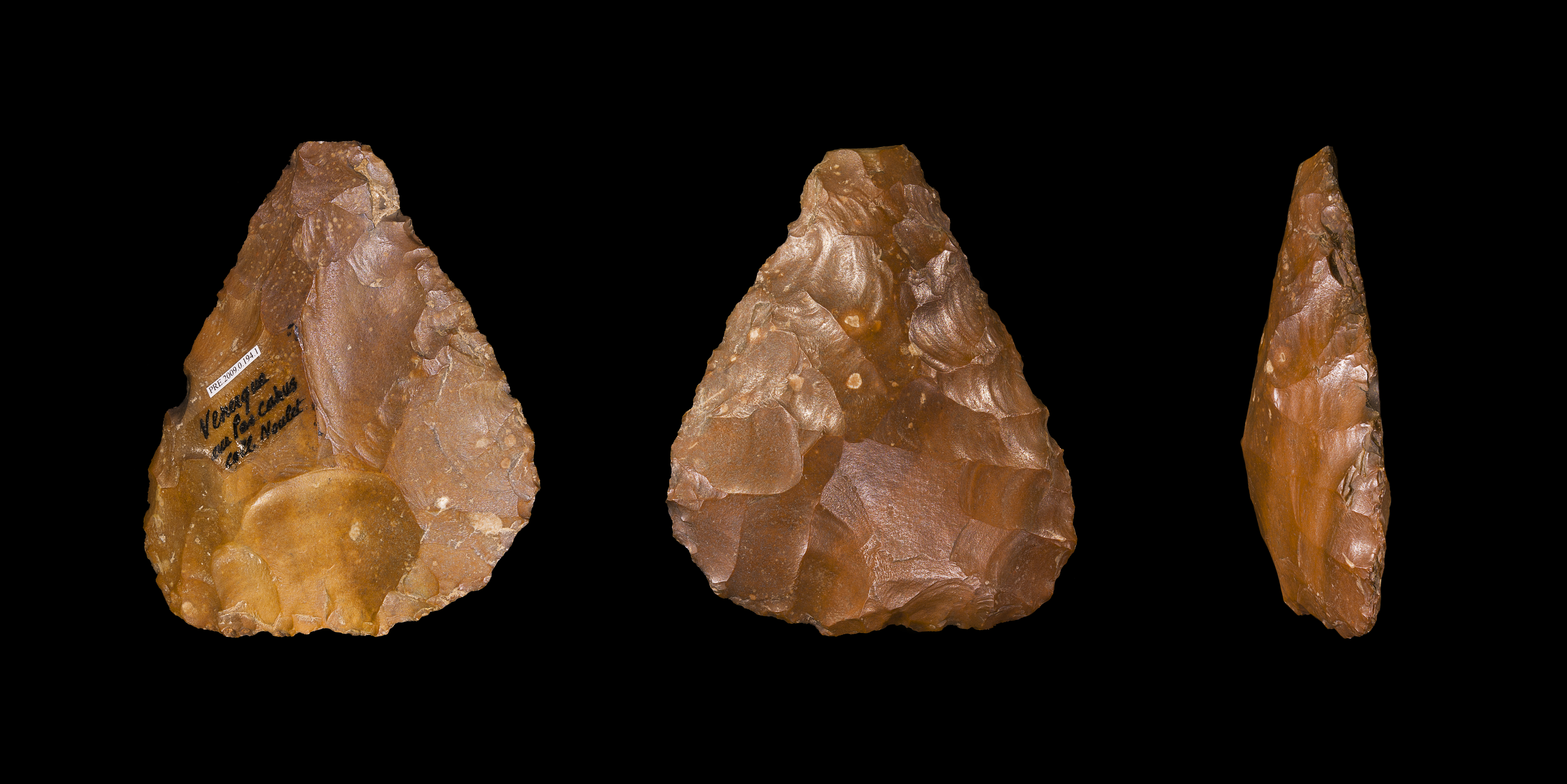 Flint Biface Stage : Lower Paleolithic (to - 1 Ma from - 300 000 years Before the Current Era) Locality : Venerque, Haute-Garonne, France Former collection of Jean Baptiste Noulet (1802 - 1890) Different views of the same specimen. Size : 125x107x31mm